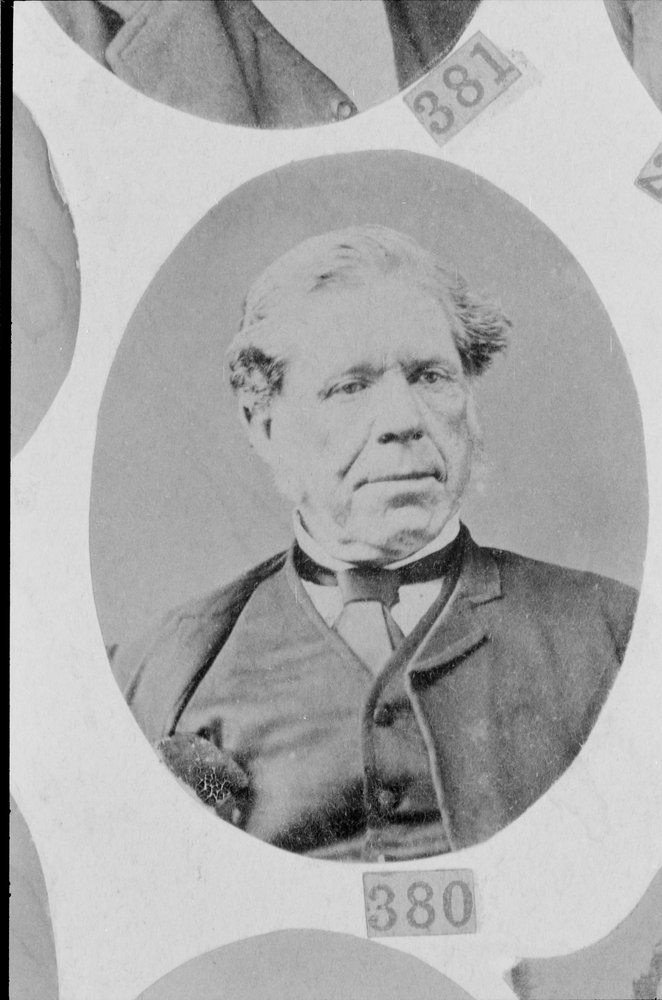 Portrait of Charles Robinson by Thomas Foster Chuck in 1872.